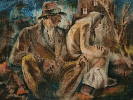 Hopeless (Fateless)